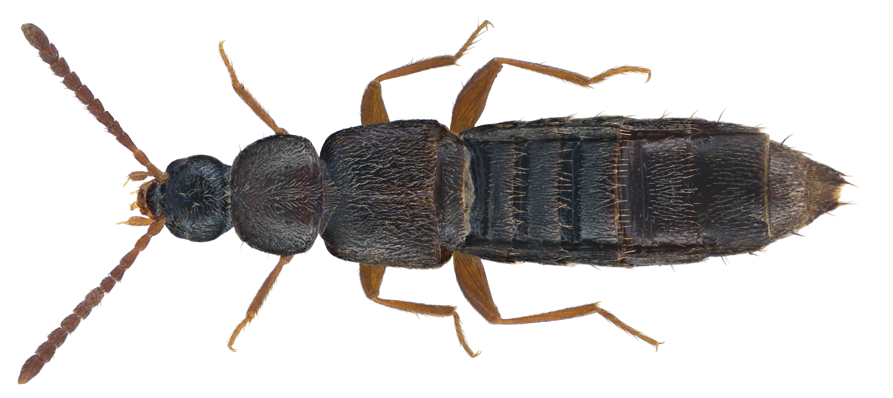 Family: Staphylinidae Size: 3,5 mm (2,5 to 3,5 mm) Distrubution: Europe Ecology: in wetlands and swamps Location: Germany, Bavaria, Upper Franconia, Selbitz leg.det. U.Schmidt, 2.VI.2003 Photo: U.Schmidt, 2015